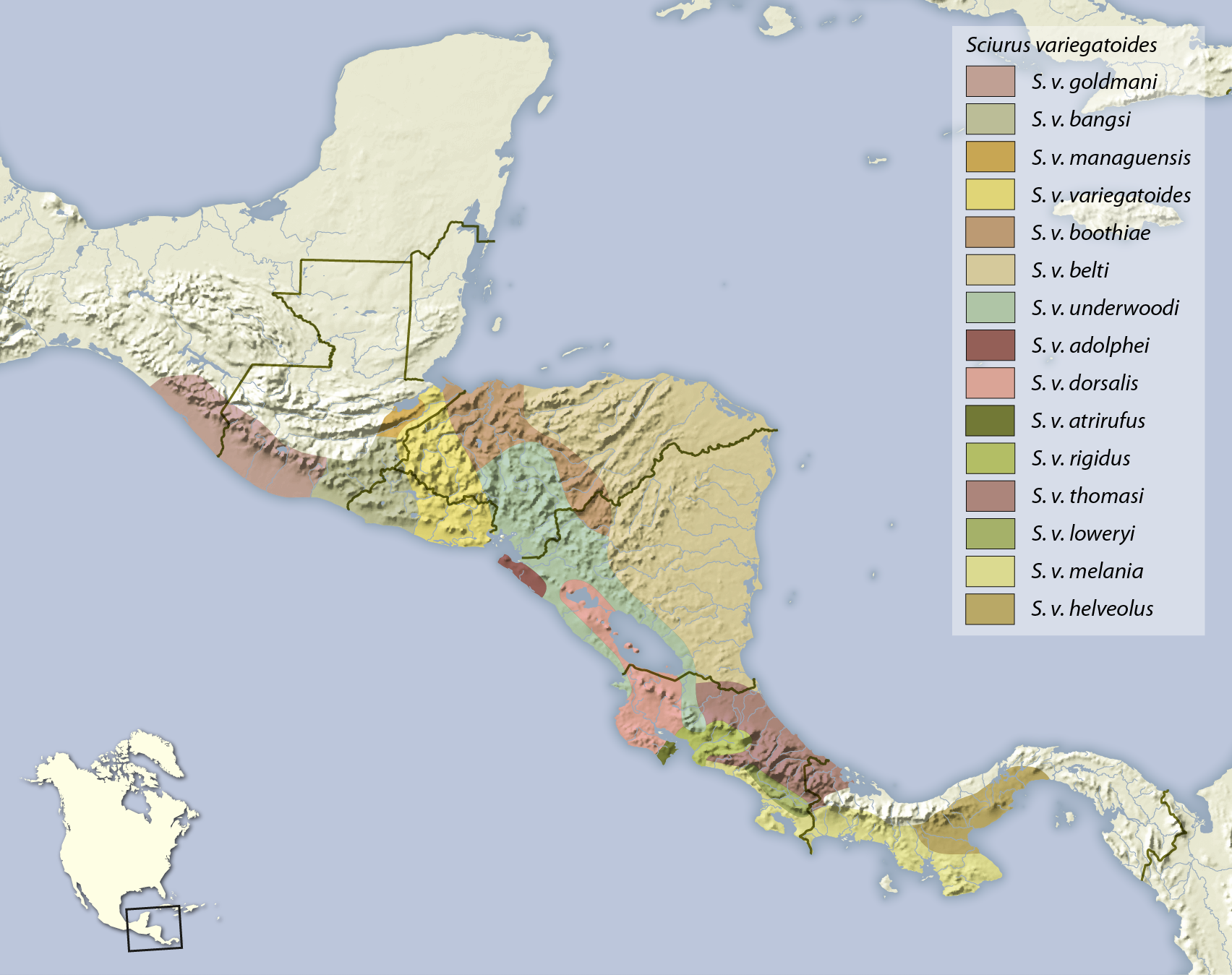 Distribution map of the variegated squirrel